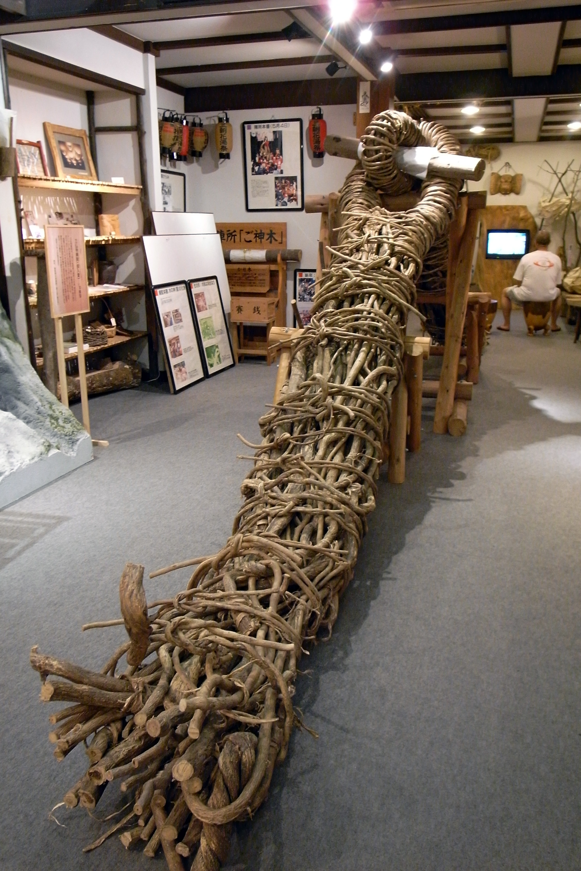 Jinsho-no-yakata in Misasa, Tottori prefecture, Japan